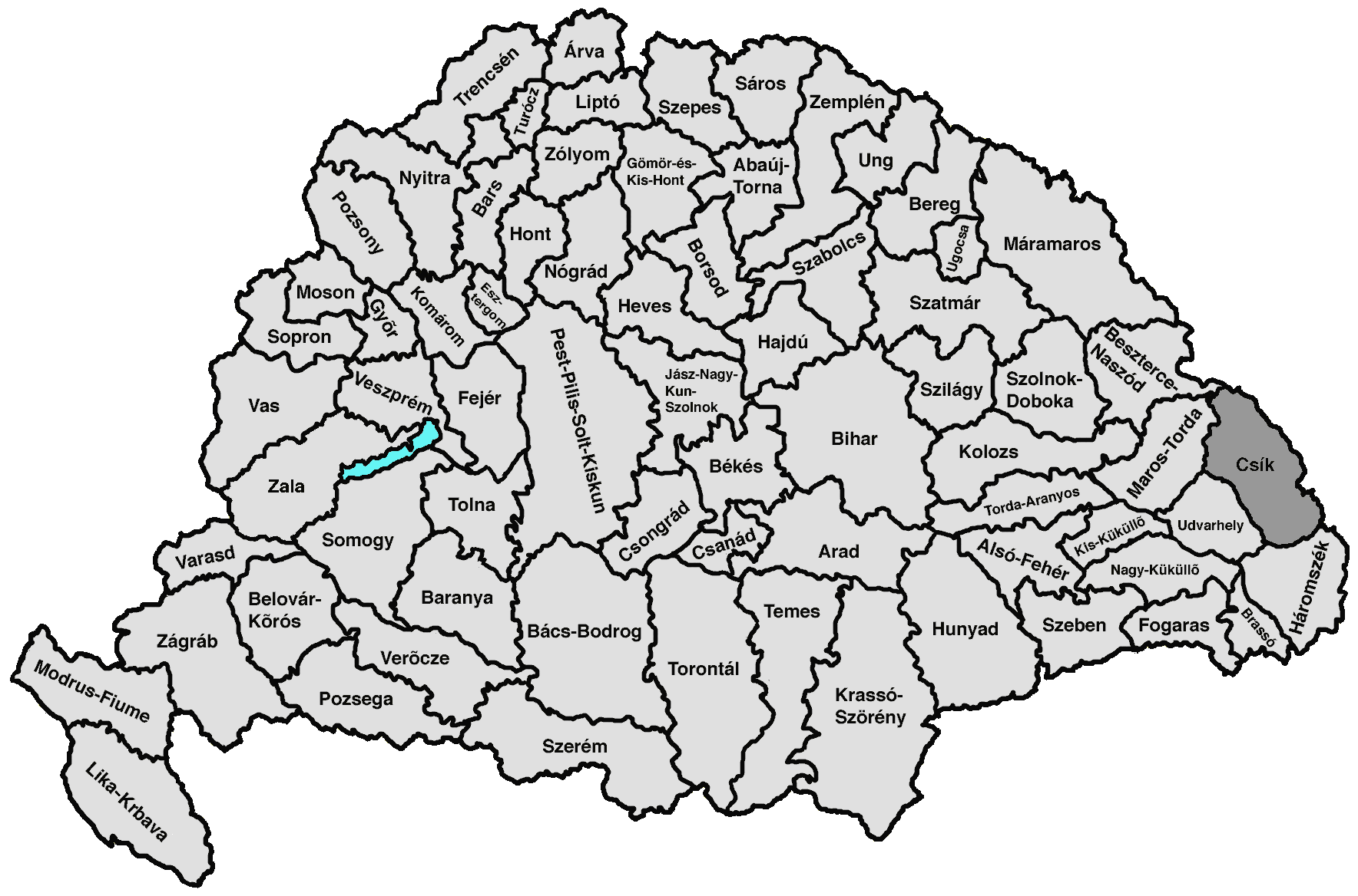 own edit of Image:Zala.png